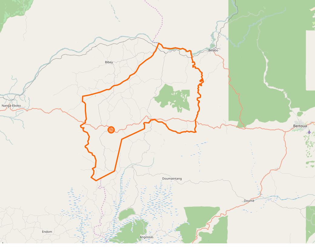 Minta in Cameroon: city boundaries with OSM. This map may be incomplete, and may contain errors. Don't rely solely on it for navigation.